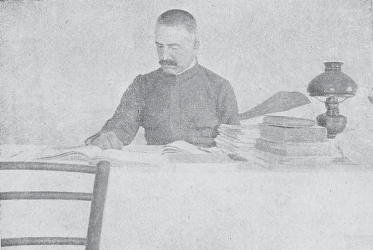 Portrait of d-r Hristo Tatarchev in his work office